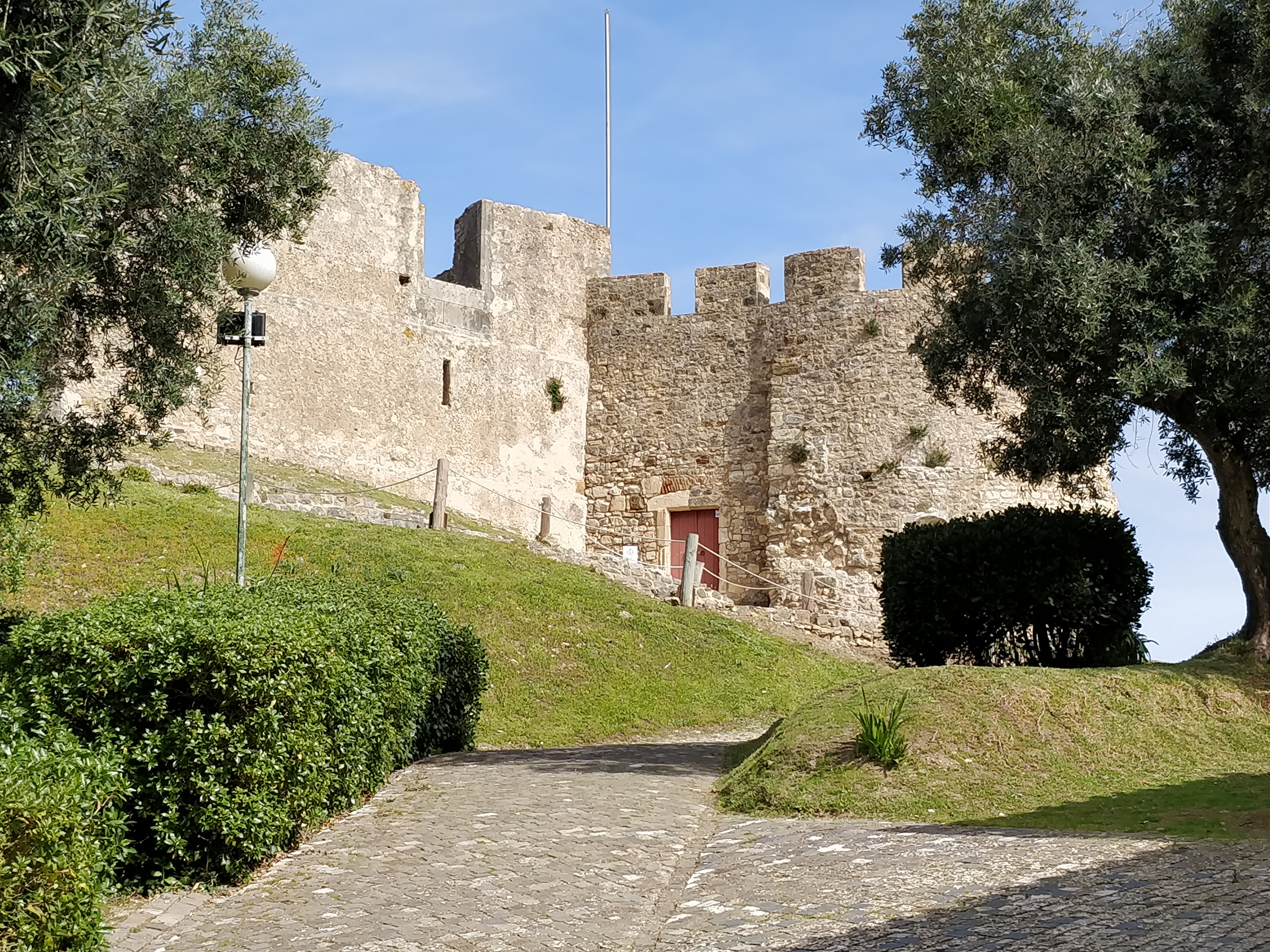 View of the Castle of Torres Vedras, in the town of Torres Vedras, Portugal